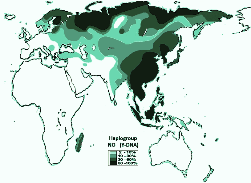 The modern distribution of subclades of Y-DNA haplogroups N and O. (Merged data from two maps created by Maulucioni.)